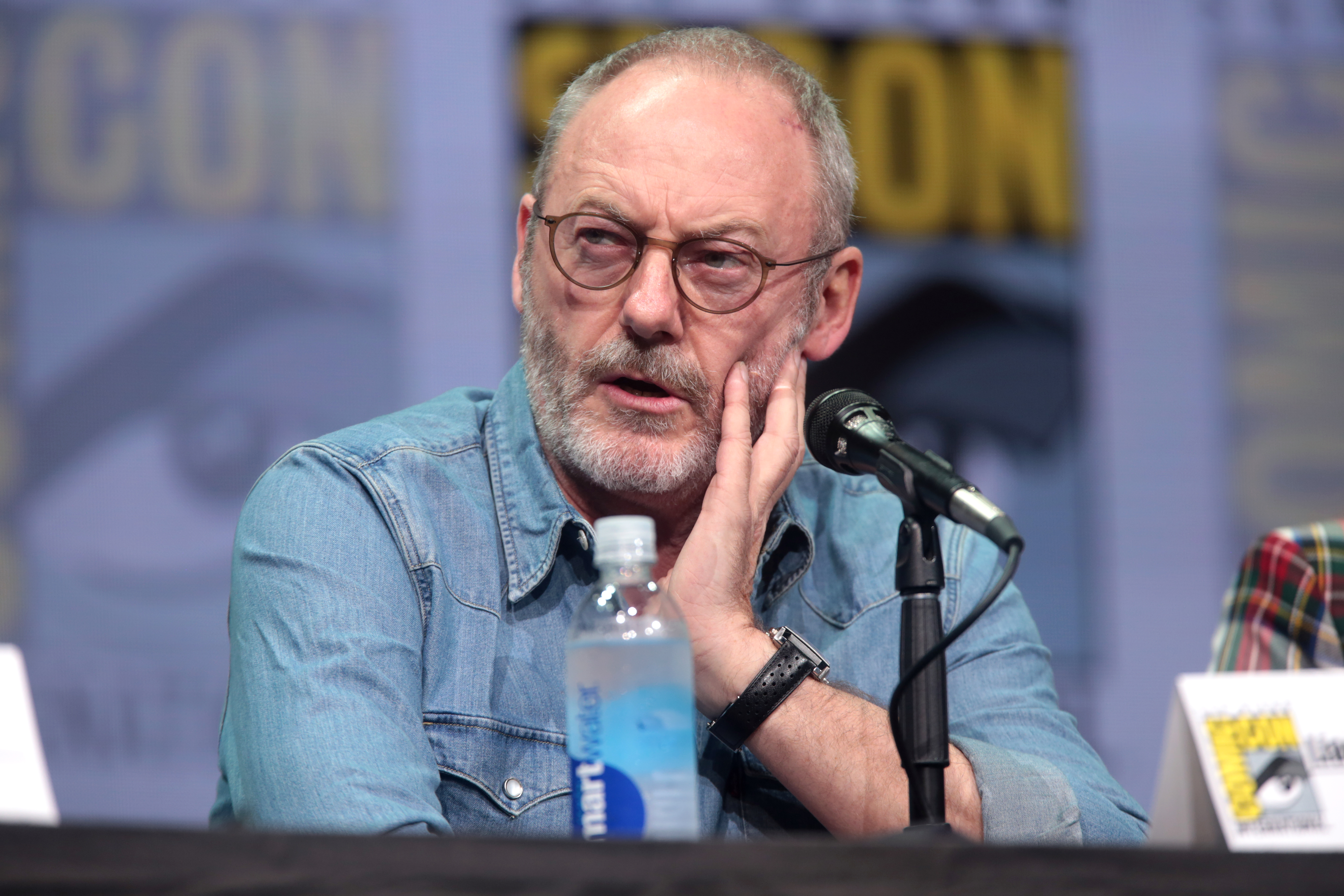 Liam Cunningham speaking at the 2017 San Diego Comic Con International, for "Game of Thrones", at the San Diego Convention Center in San Diego, California.